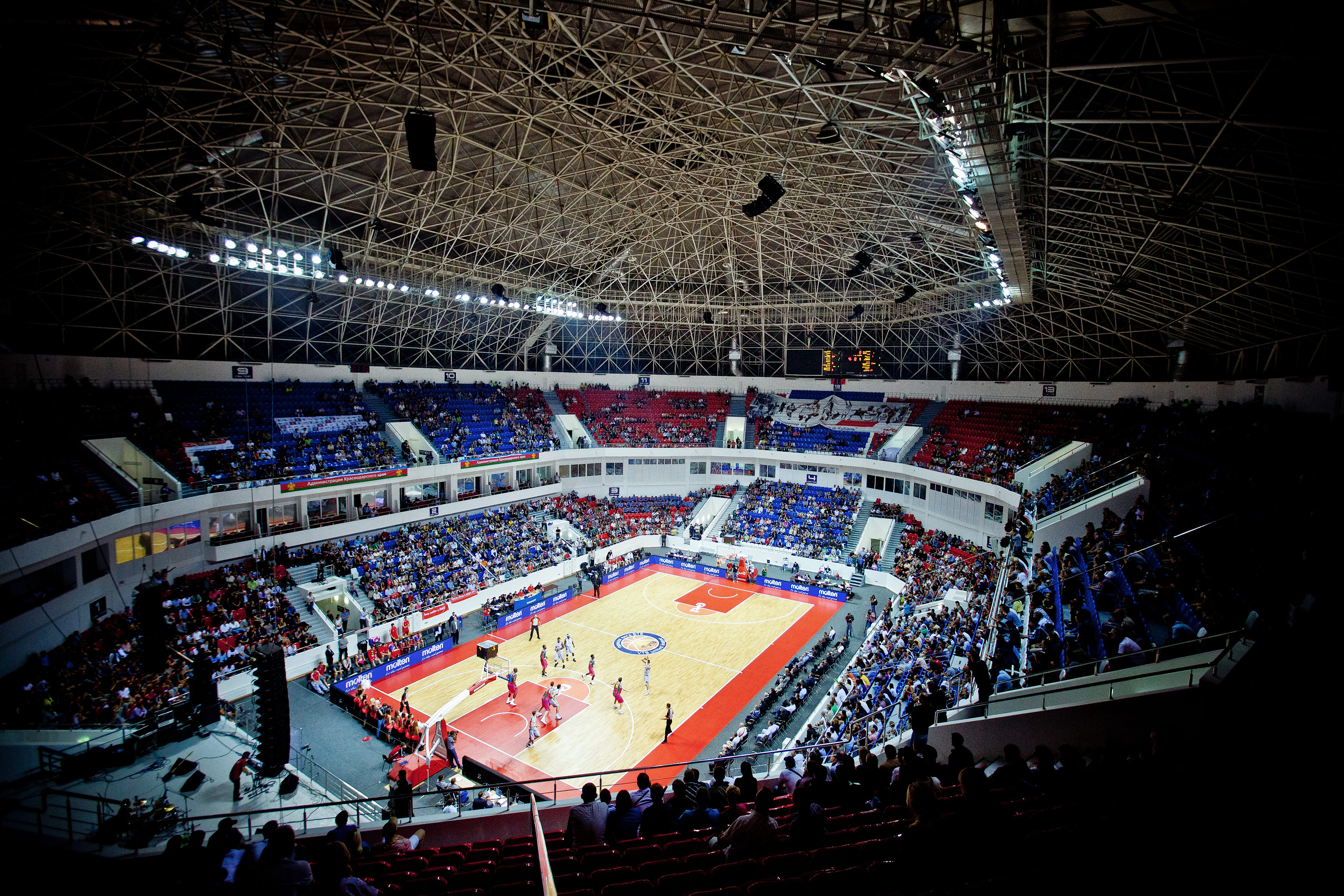 вид сверху